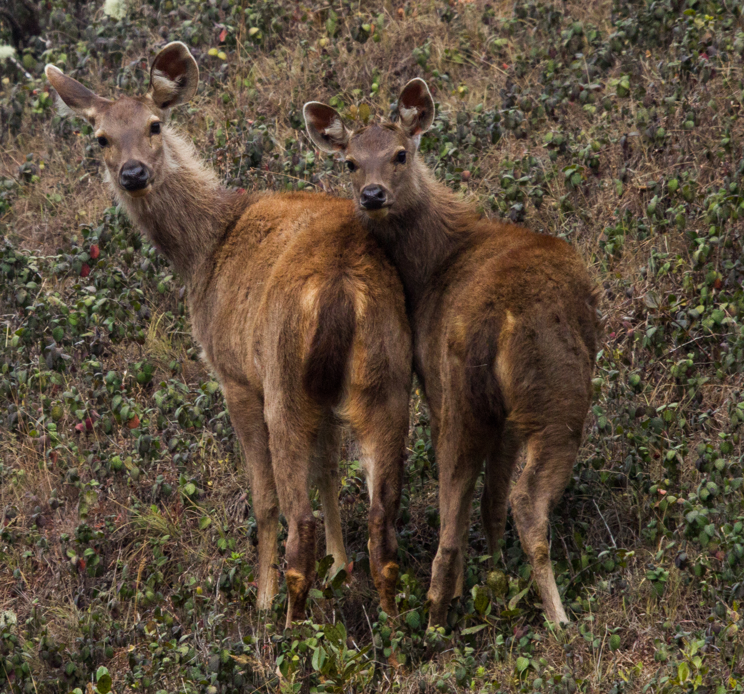 Sambar deer.